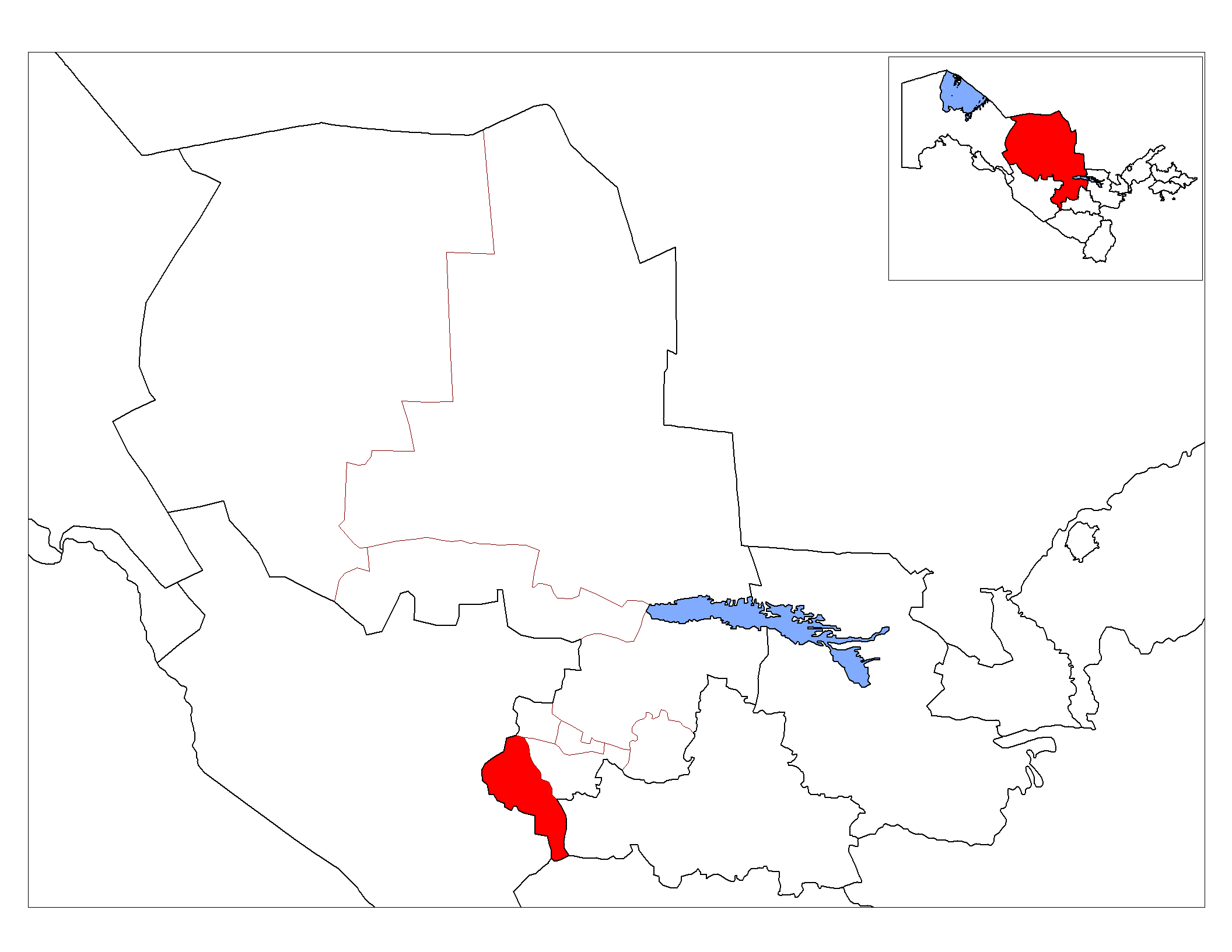 Location map of Qiziltepa District in Navoiy Province, Uzbekistan